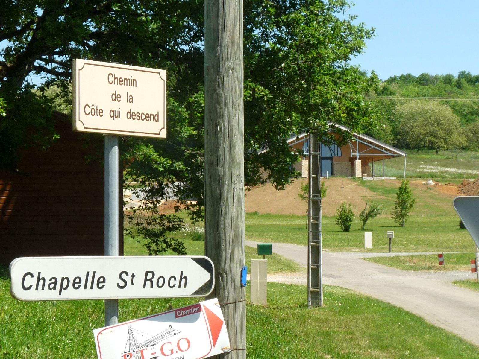 "Lane of the slope up which goes down" (optical illusion), Saint-Sornin, Charente, SW France; due to a false perspective, gentle slope up in the foreground, then steepier in the background; looks like a gentle slope down in the foreground; was reported in the local newspapers La Charente Libre and Sud-Ouest in the 1980's, many curious Sunday drivers "abused" then